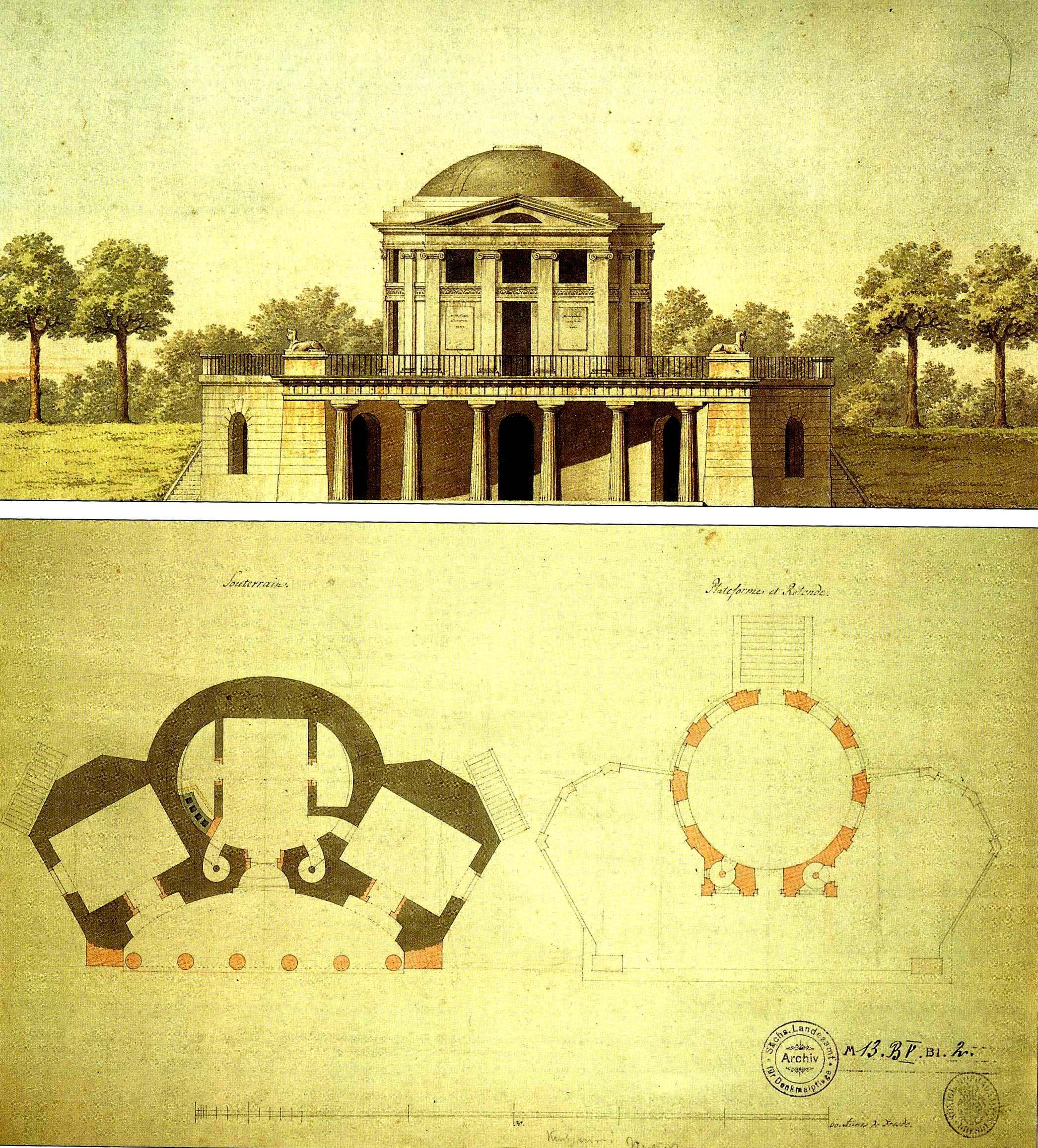 Drittes Belvedere